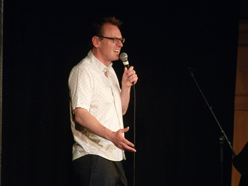 Sean Lock performing at The Hexagon in Reading, Berkshire in 2008